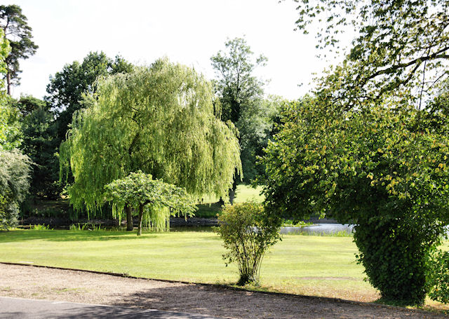 Grounds of the American School, Thorpe Looking from the churchyard.